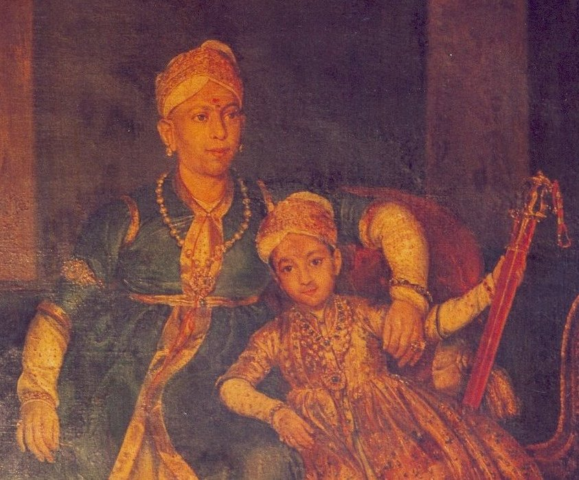 Swathi Thirunal Rama Varma was the Maharaja of the erstwhile Indian kingdom of Travancore from 1829-1846 C.E.